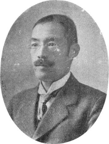 Mr. Kumajirō Satō.